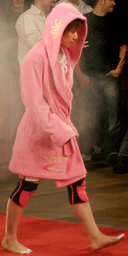 Source: Cropped from original image on Flickr.